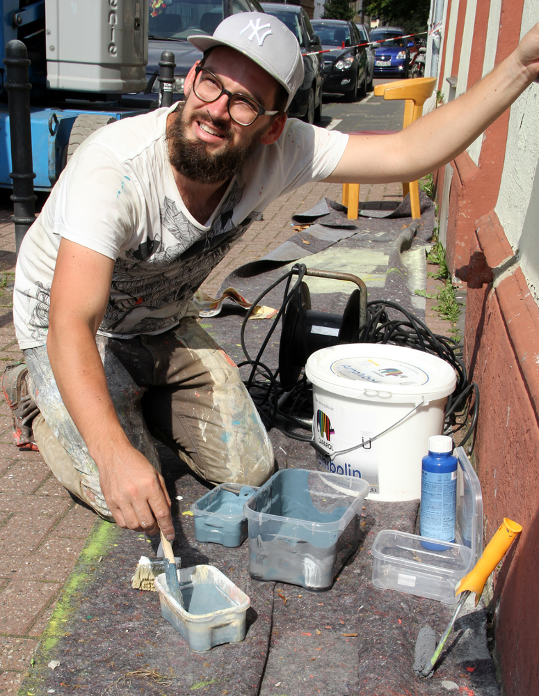 Christian Böhmer, Köln, August 2015